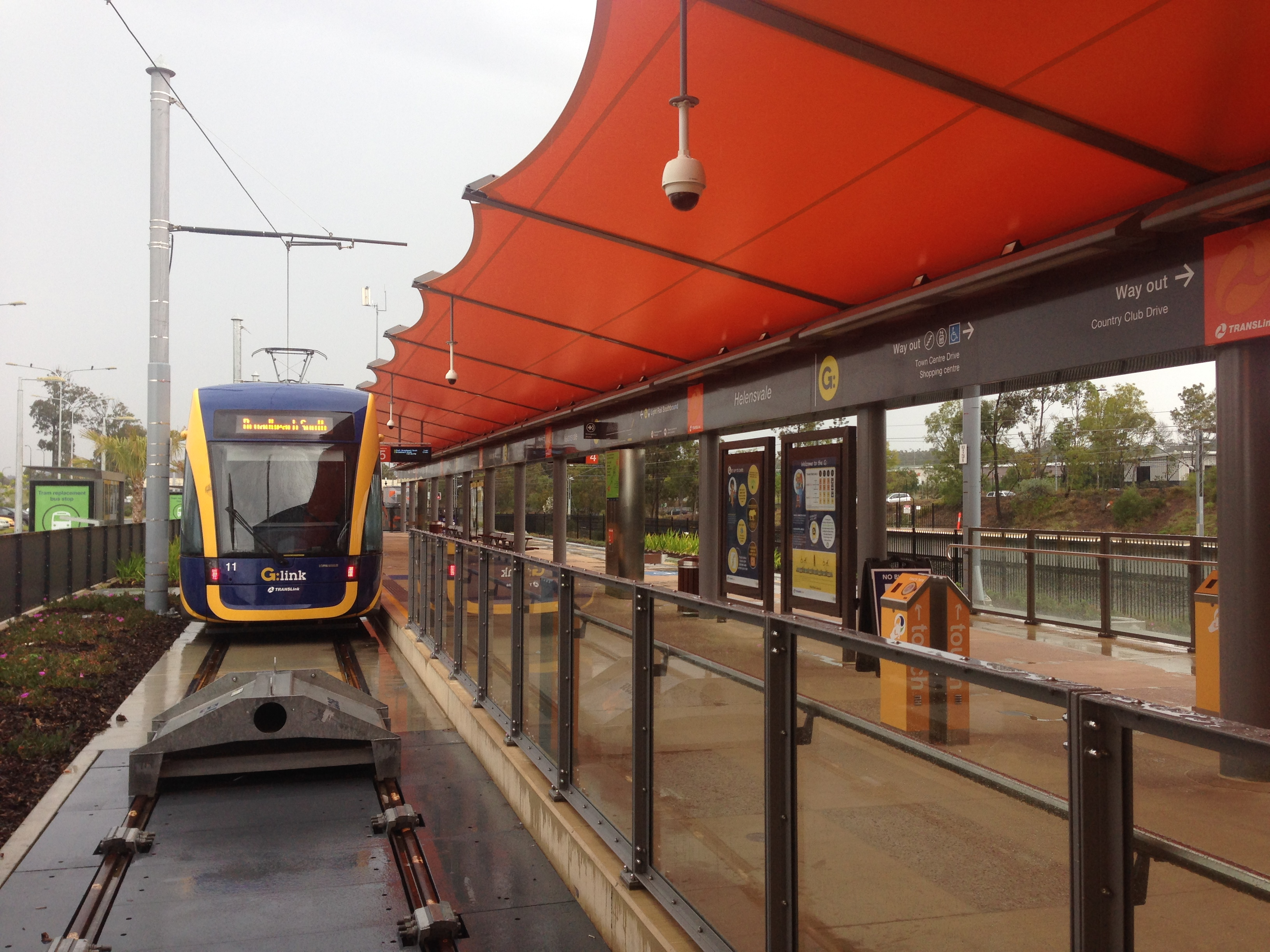 A G:link tram at the Helensvale terminus in October 2018.